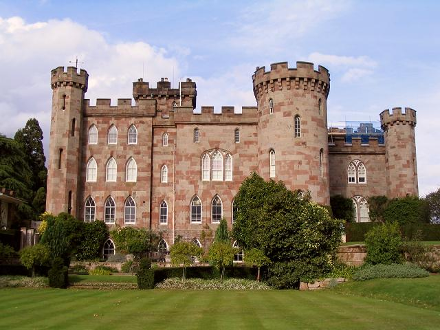 Photograph